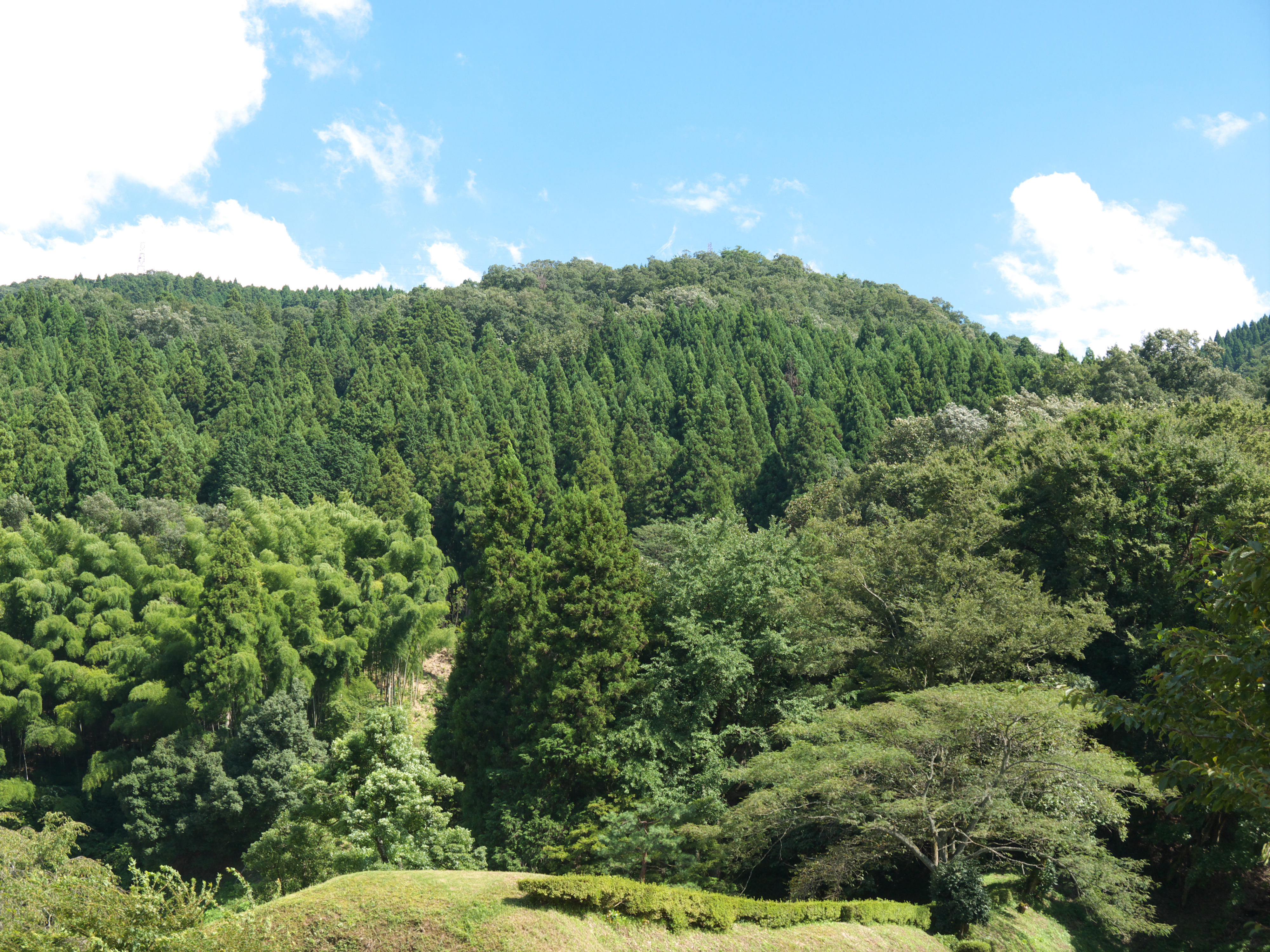 Mount Ichijoshiro (Ichijoshiroyama) in summer